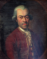 Portrait of August Ludwig Schlözer (1735-1809), Oil on canvas 53.5 x 66 cm, Collection: Universität Göttingen.